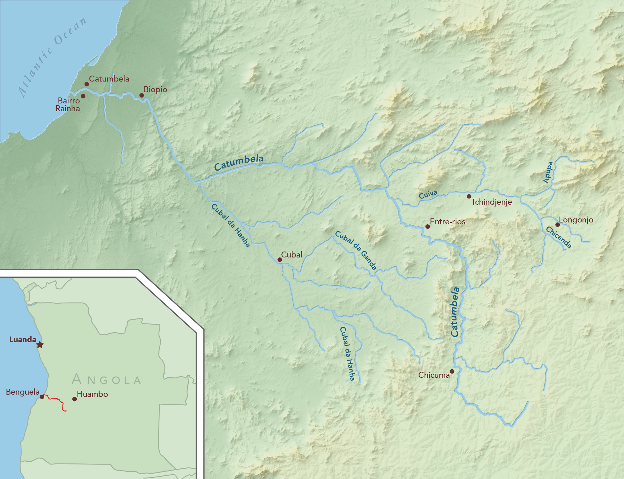 A map of the Catumbela River in Angola. Locator map: Natural Earth data Main map: Lambert Conformal Conic SP: -13.2, -12.7, CM: 14.4 Rivers via VMAP0 and OpenStreetMap (Copyright OpenStreetMap Contributors — Settlements from OpenStreetMap Elevation from SRTM